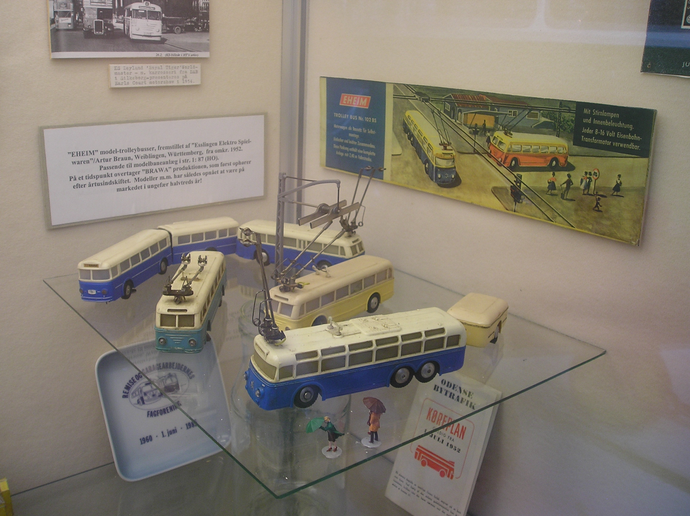 Models of trolleybuses from the German firm Eheim at Sporvejsmuseet Skjoldenæsholm in Denmark.